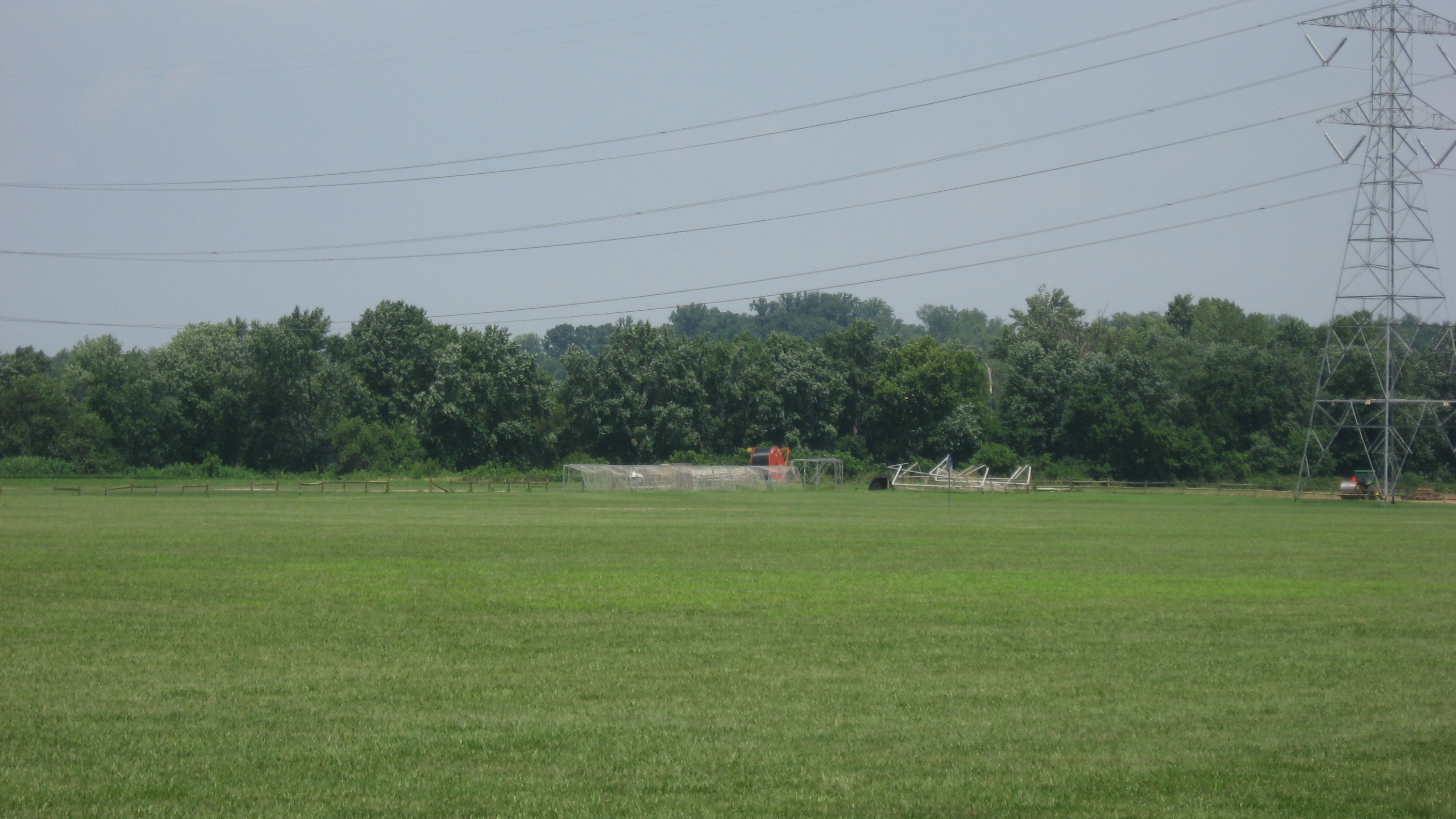 Fields in Clear Creek Park, north of the old Batavia Road (State Route 32) in northwestern Anderson Township, Hamilton County, Ohio, United States. The park was once a village of the Fort Ancient culture, and slightly more than one square mile of the park is a group of archaeological sites known as the Hahn Field Archeological District; it is listed on the National Register of Historic Places.